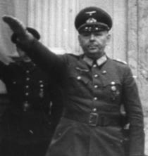 Hermann Reinecke